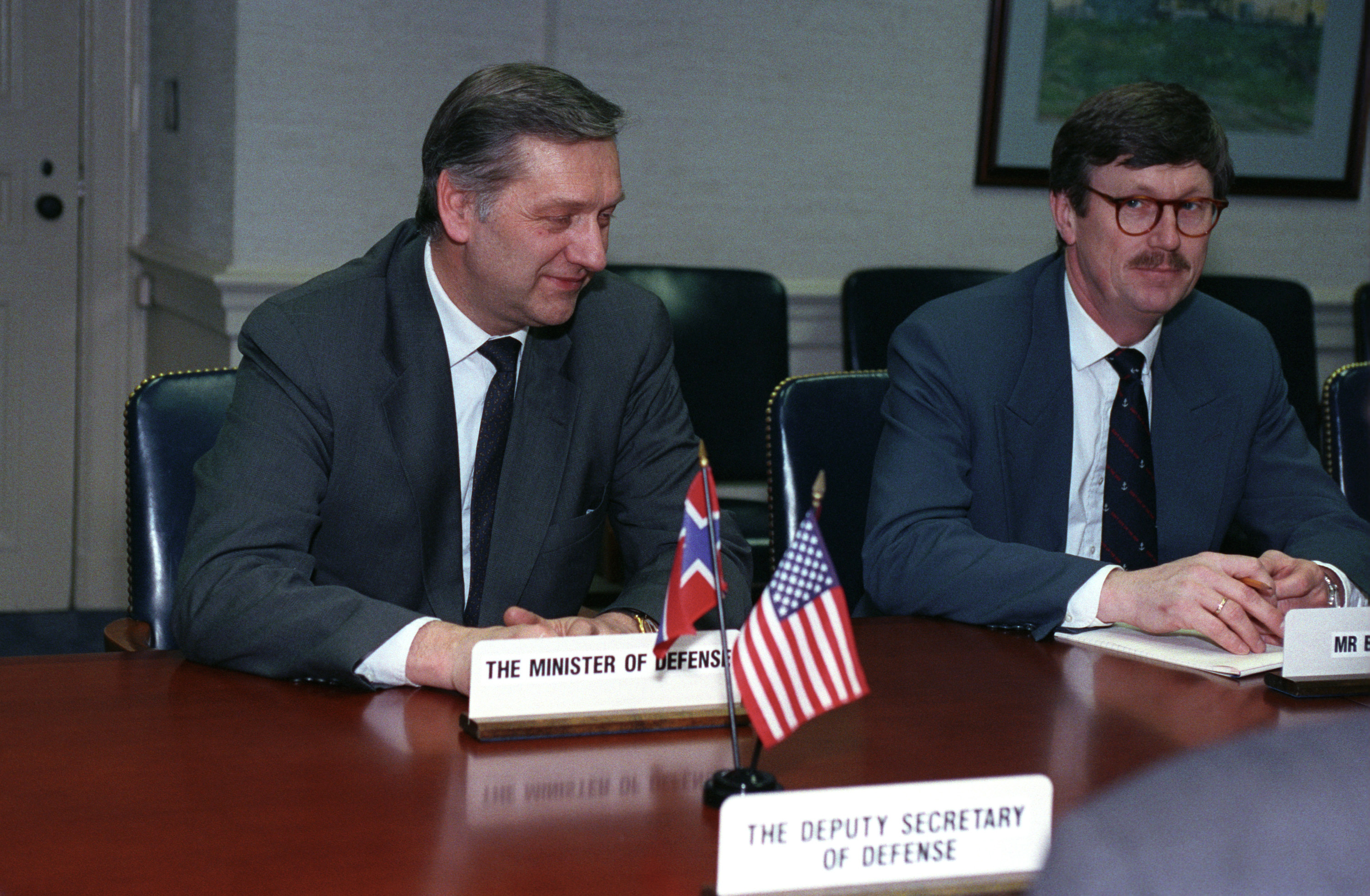 Mr. Johan Jørgen Holst (left), Norwegian Foreign Minister, sits in a meeting at the Pentagon, Washington, D.C.